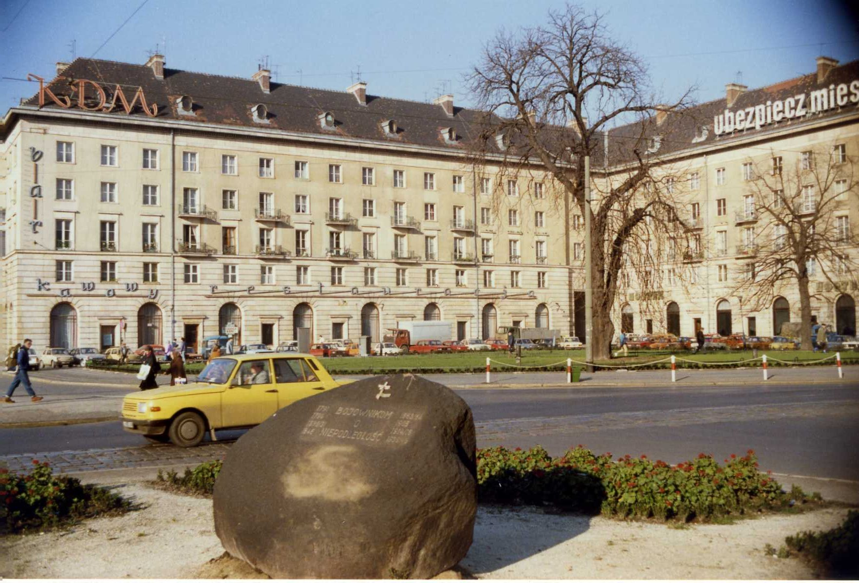 Solidarność walcząca graffiti on Pl Kościuszki in Wrocław. "FIGHTING SOLIDARITY was founded here in Wroclaw and thus its strongest area by Kornel Morawiecki , hence the graffito. The Wikipedia link shows the S-anchor motif of Solidarność Walcząca